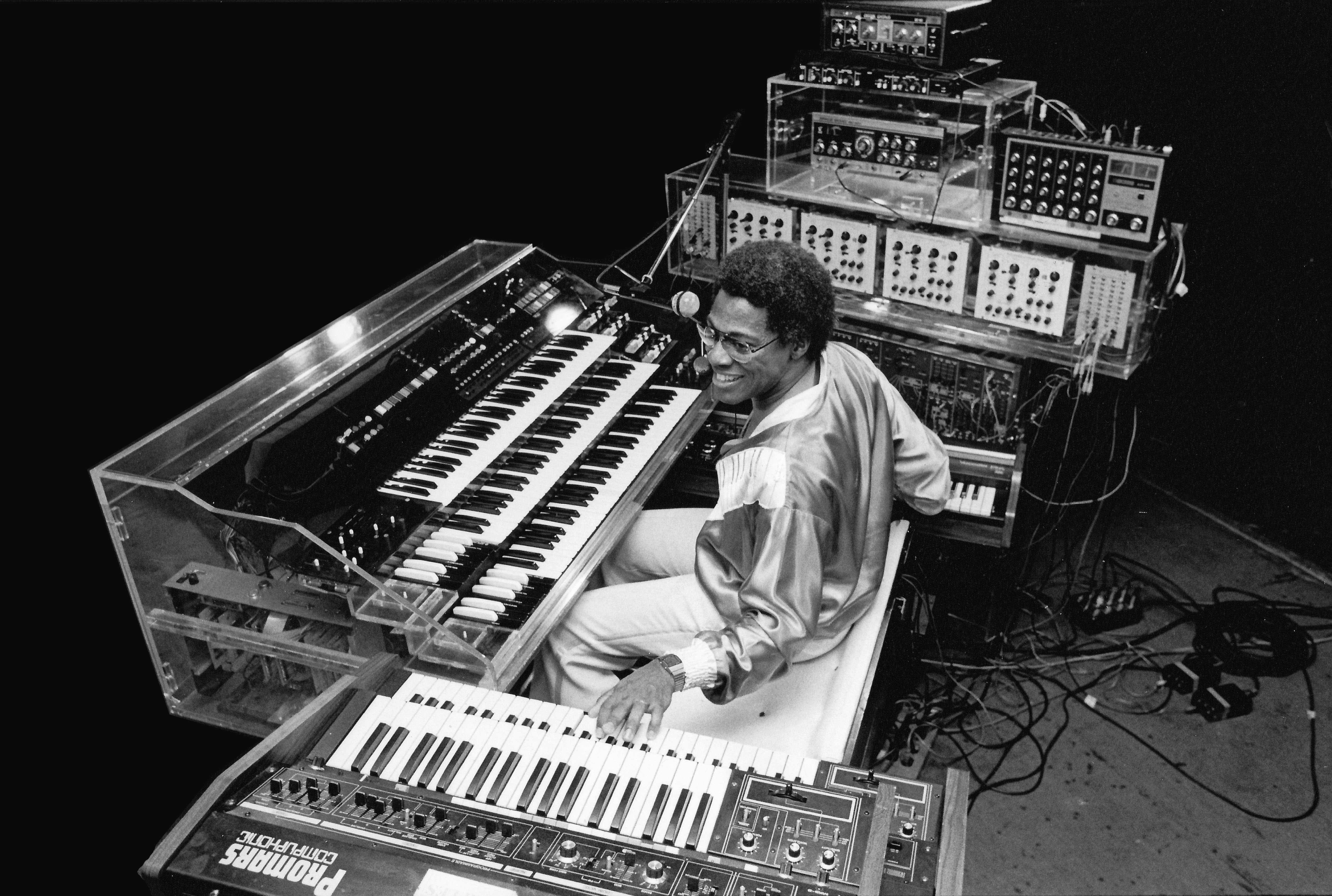 Photograph taken for use in documentary film "THE BALLAD OF DON LEWIS" at The Museum of Making Music